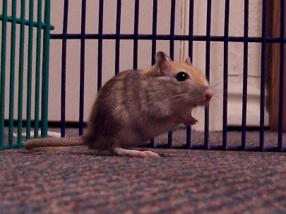 Nutmeg gerbils begin life with bright orange fur. Starting at about eight weeks of age, their fur slowly begins to change to a dark brown.